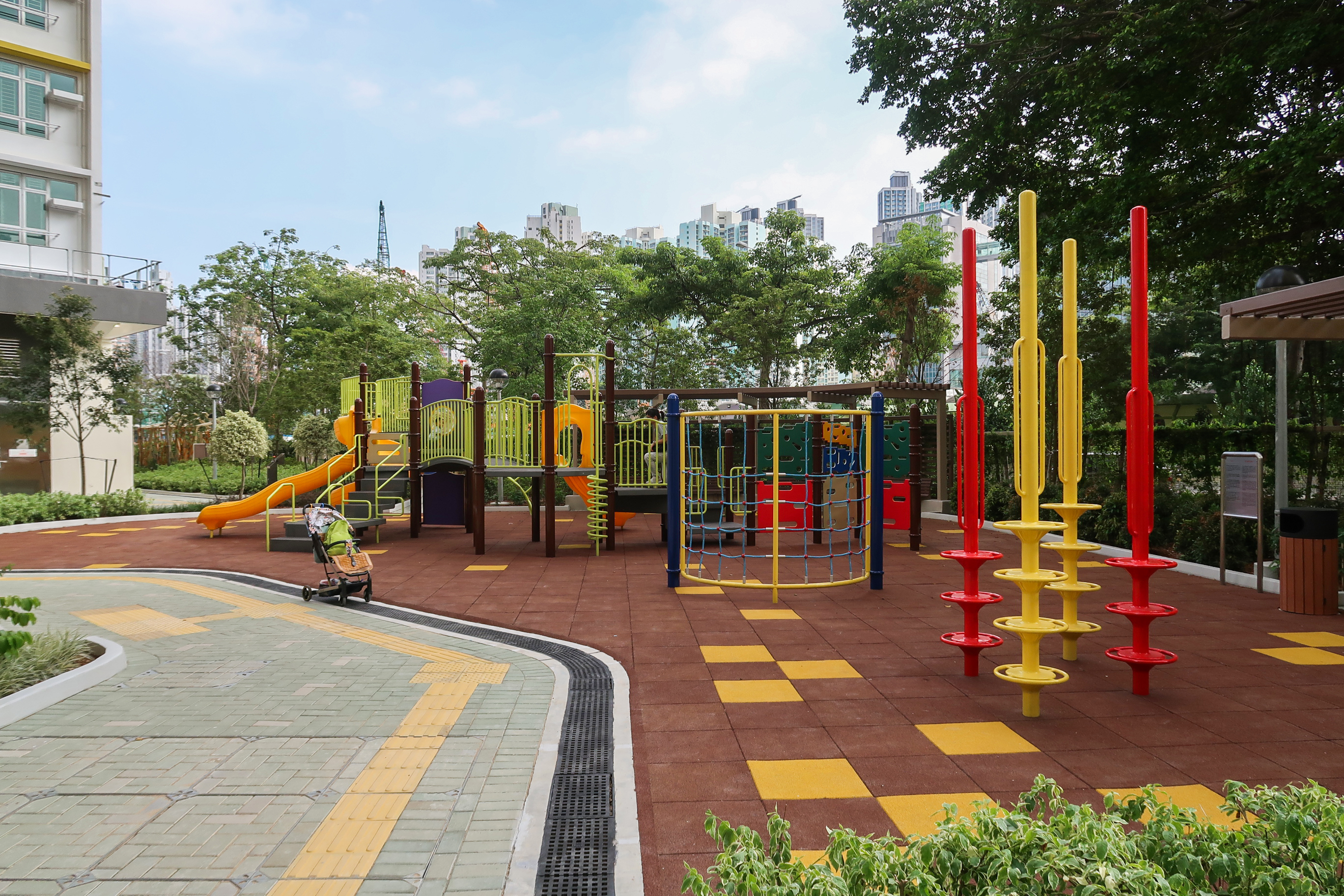 Lai Tsui Court Children Play Area 1